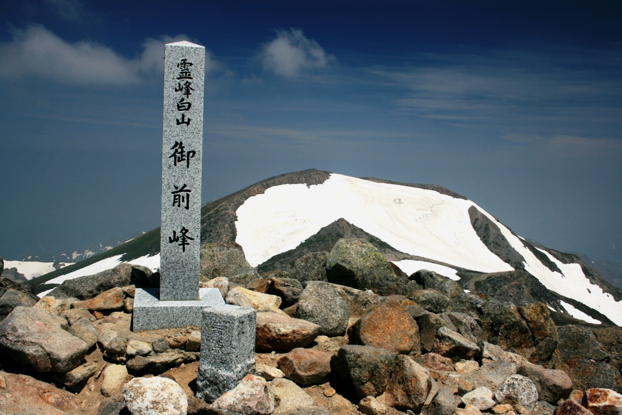 Mount Haku Top_2010-6-11